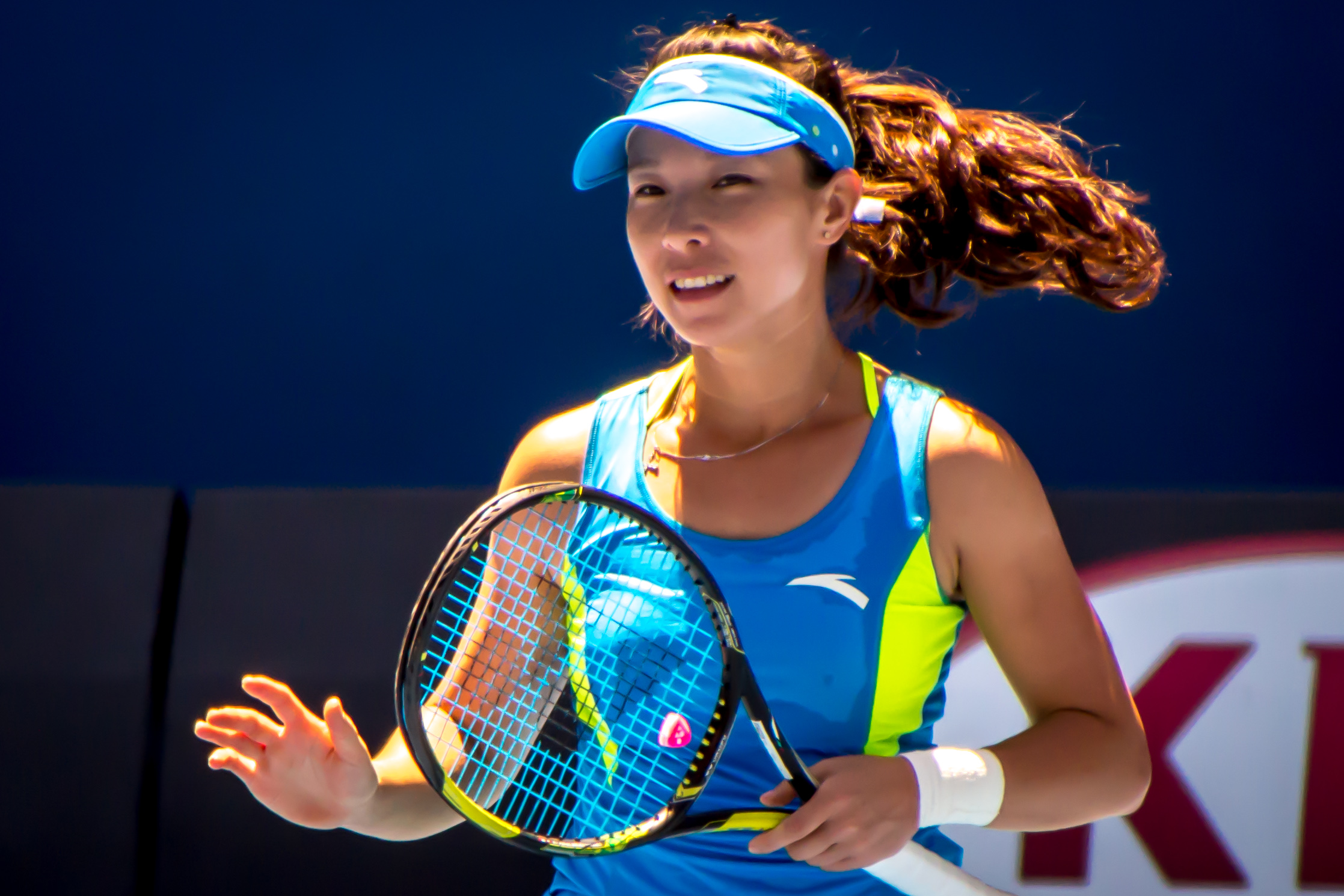 Jie Zheng (CHN) during her 2nd round mixed doubles 3-set win with Scott Lipsky (USA) over the top seeds Anna-Lena Groenefeld (GER) and Alexander Peya (AUT) at the 2014 Australian Open on Margaret Court Arena.